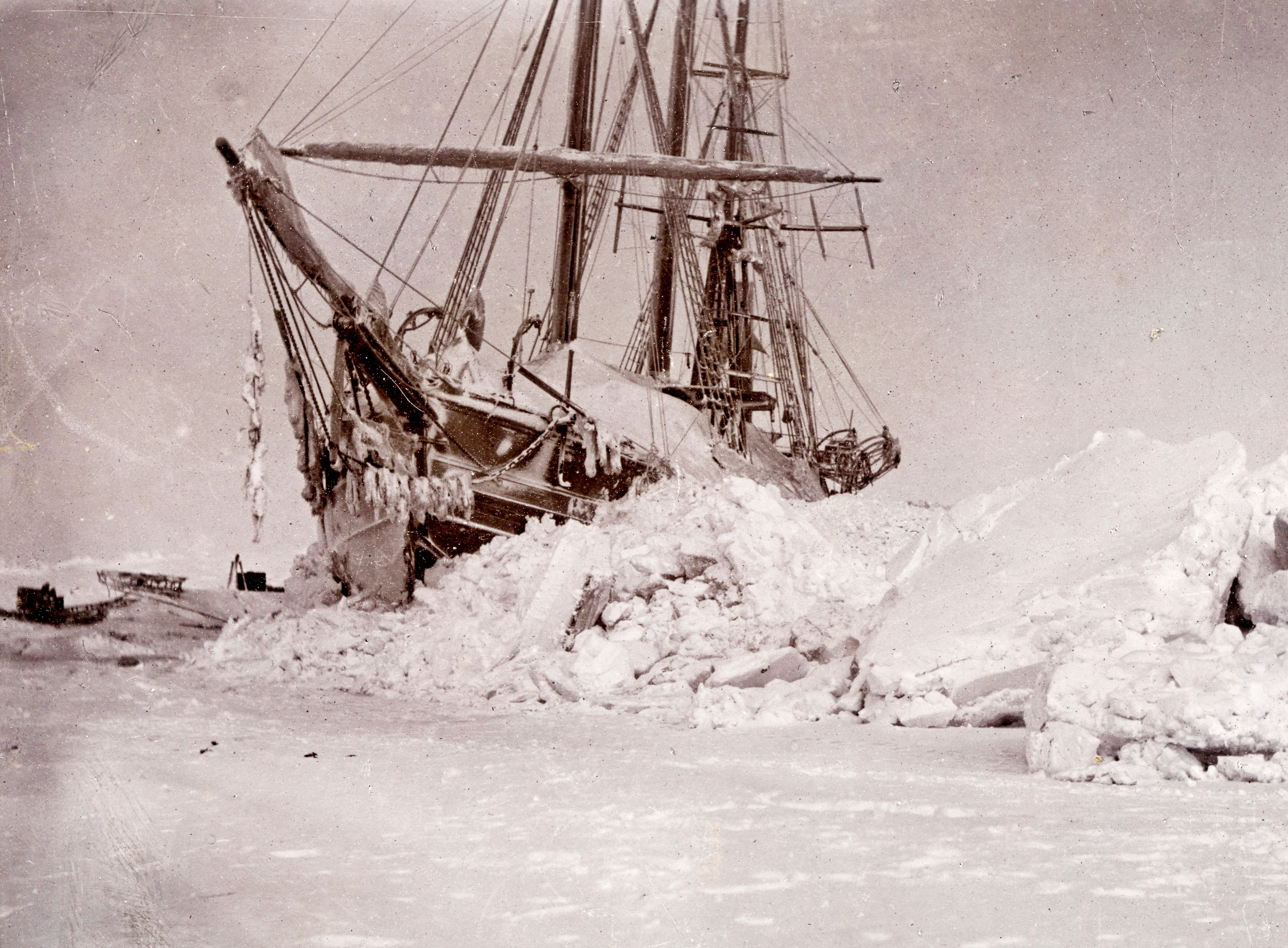 «Fram» in the pack ice by moonlight. One of the pictures from the expedition with arctic ship toward the North Pole in the period June 24, 1893 to August 13, 1896. According to the plan, the ship was to drift in the ice with the ocean current from the coast of Siberia across the North Pole to Greenland. The goal, to get to the North Pole, was not reached, but the scientific evidence gathered was of great importance to arctic research.